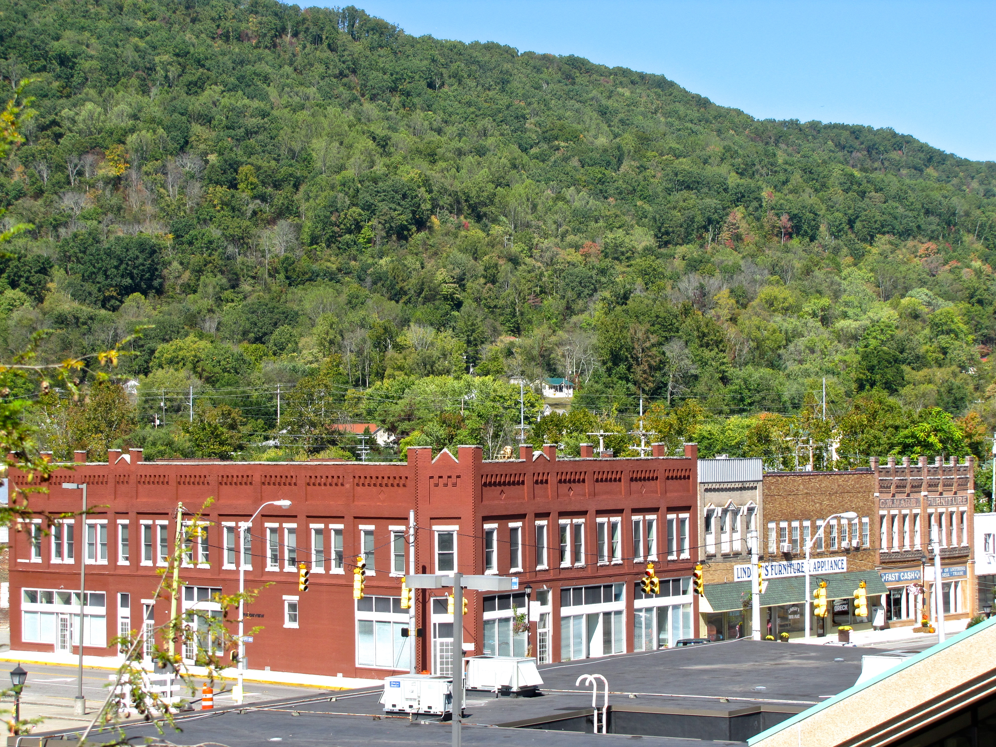 Buildings along Central Avenue (U.S. Route 25W) at its intersection with Tennessee Avenue in LaFollette, Tennessee, United States.